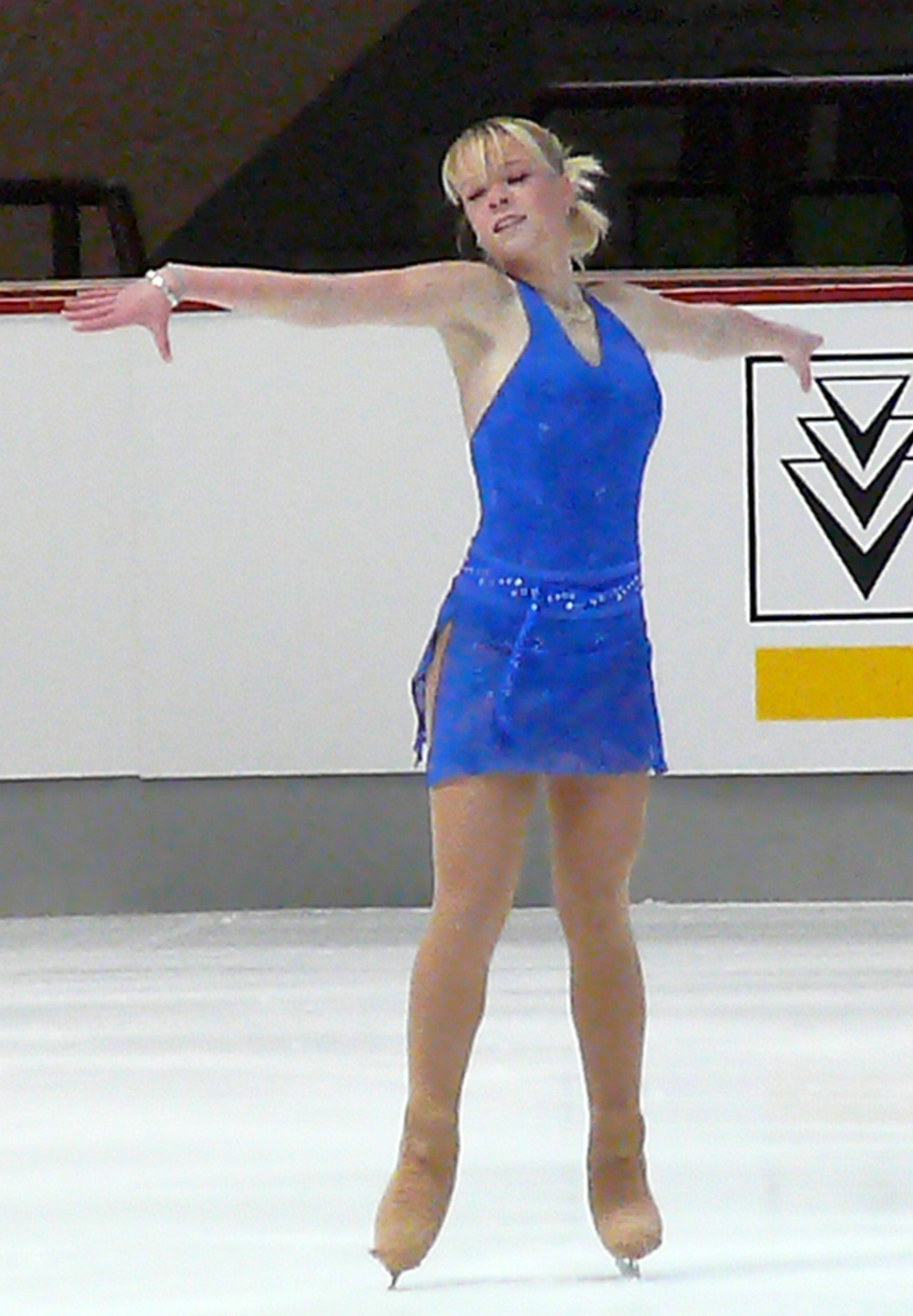 Katharina Häcker (GER) at the short program of the Nebelhorntrophy Oberstdorf/Germany 2007